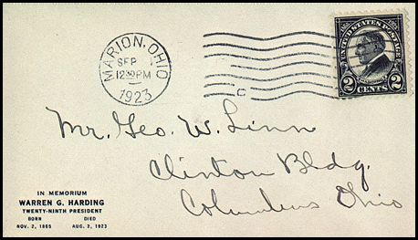 FDC cover cachet of Harding Memorial stamp issue, United States, 1 September 1923